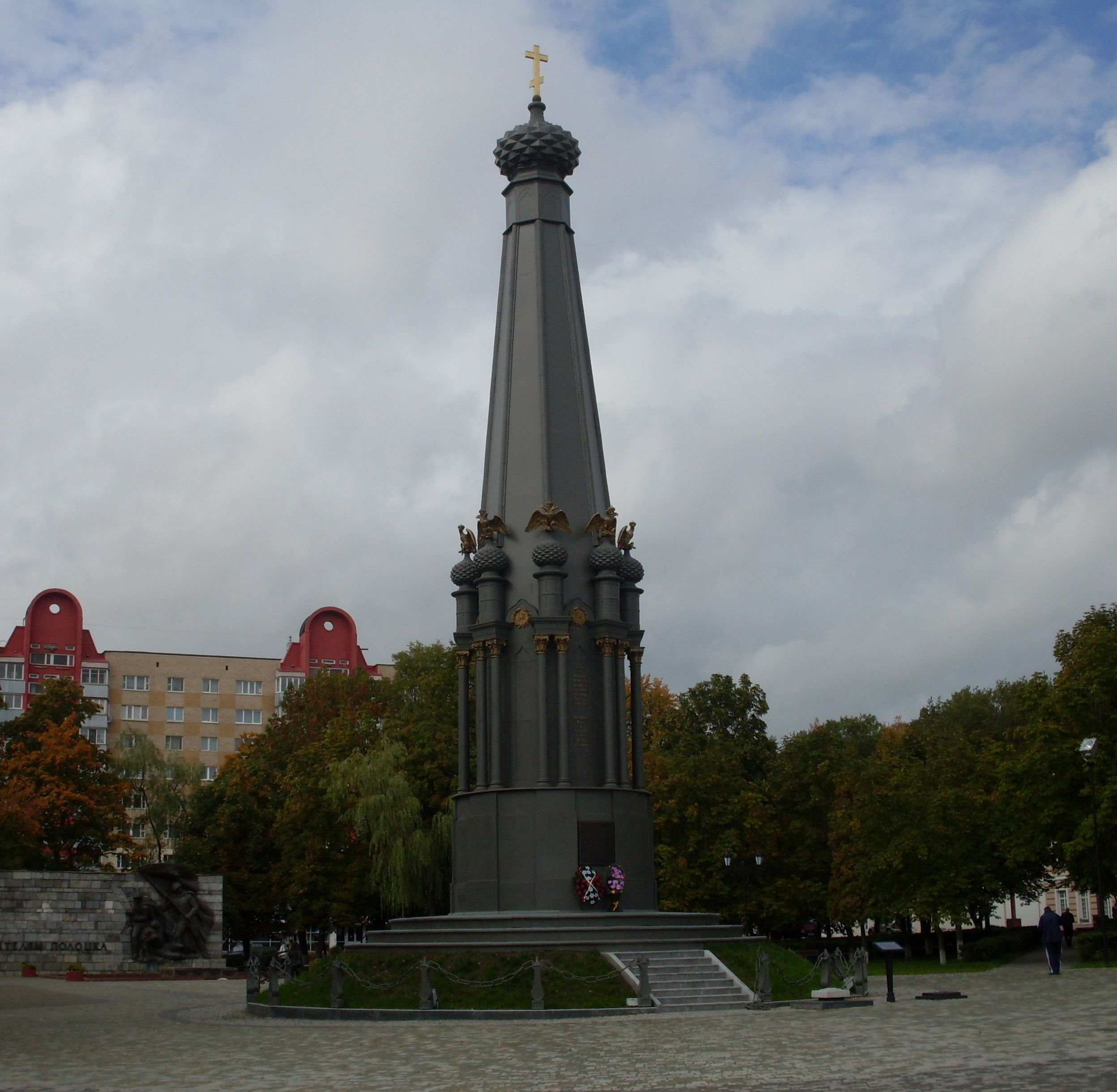 The monument-chapel of Heroes War of 1812 in Polotsk-2